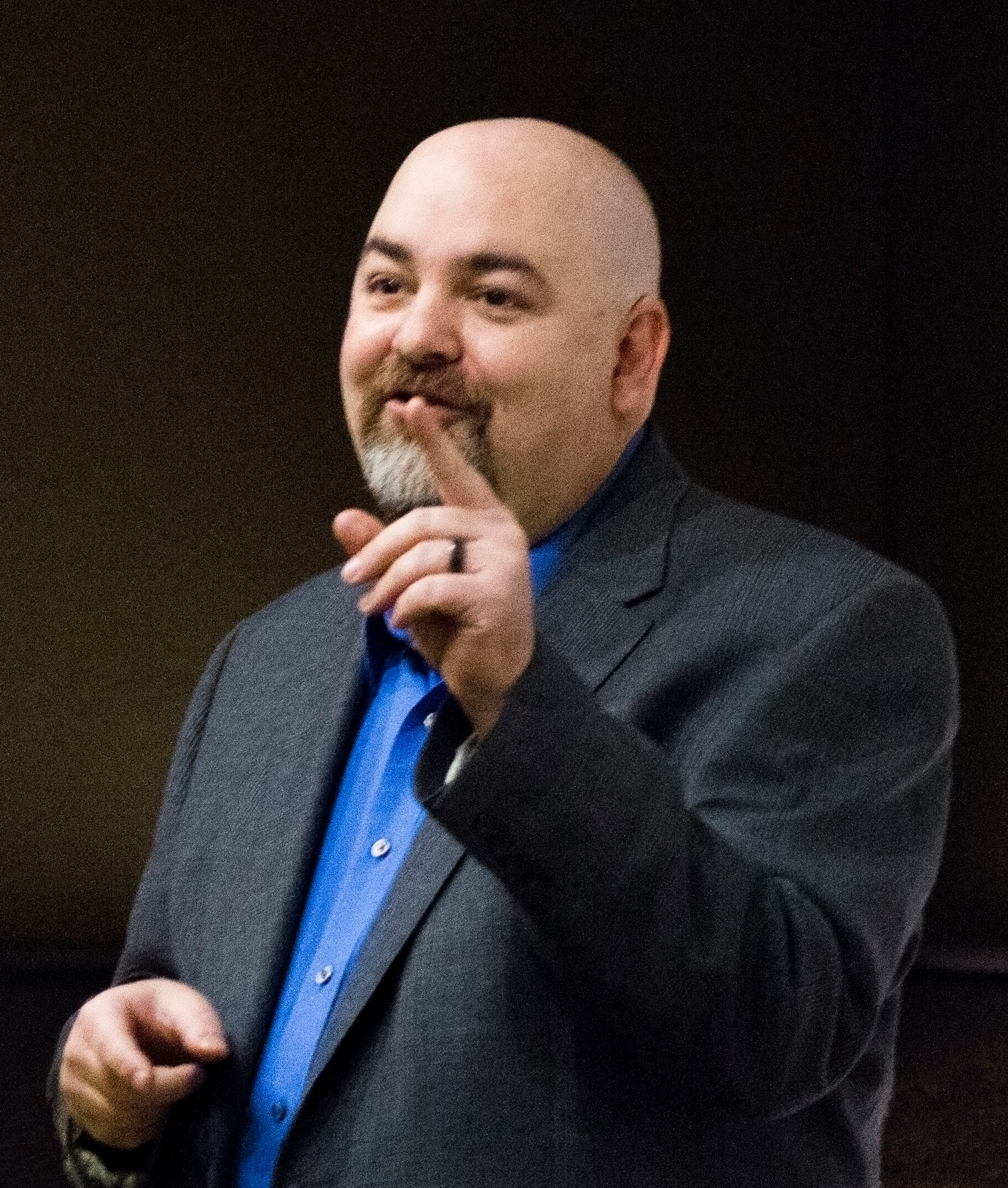 Matt Dillahunty at SashaCon 2013